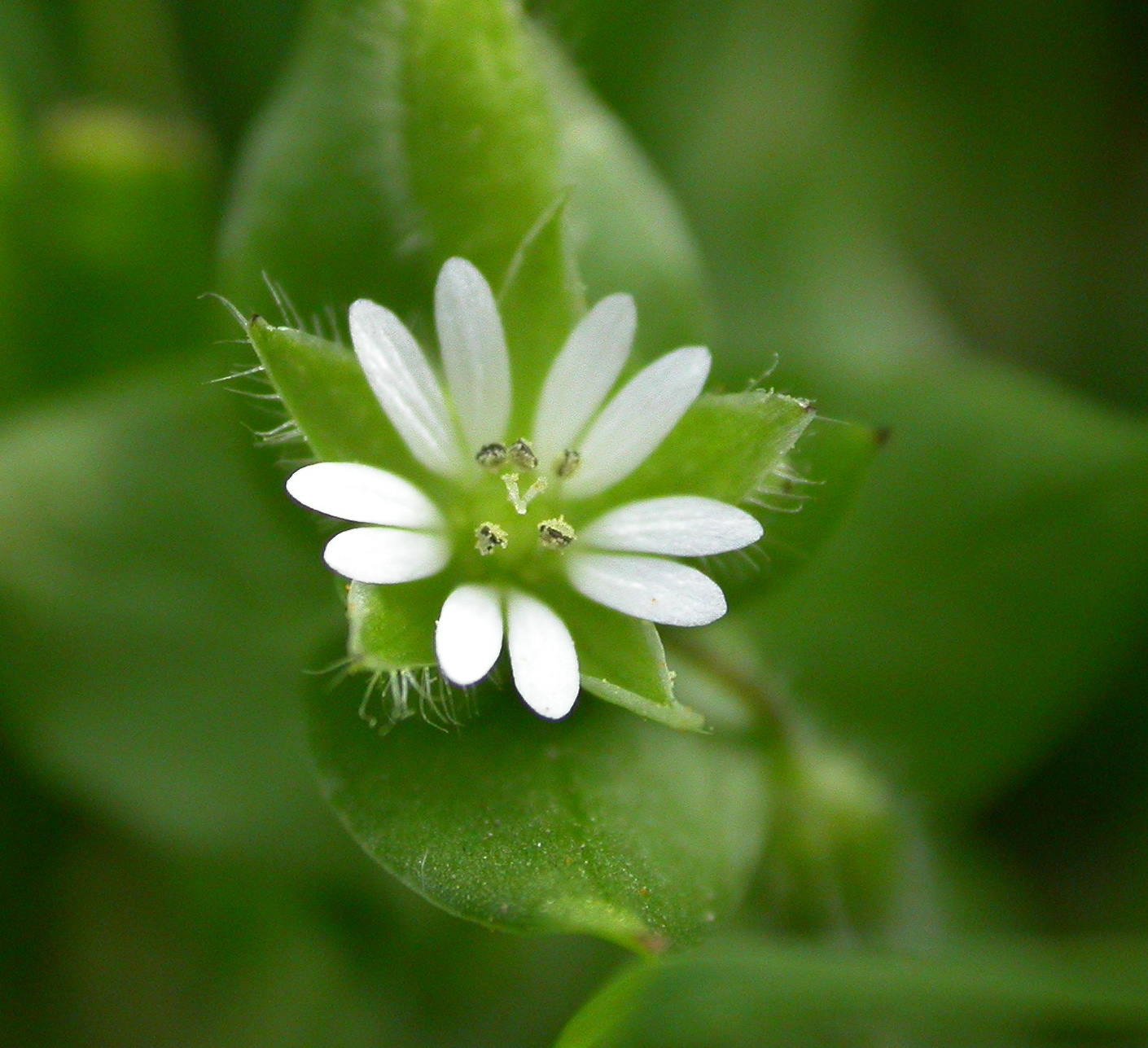 Photographed in Voorhis Ecological Reserve near Pomona, CA, USA. Species is an introduced weed.